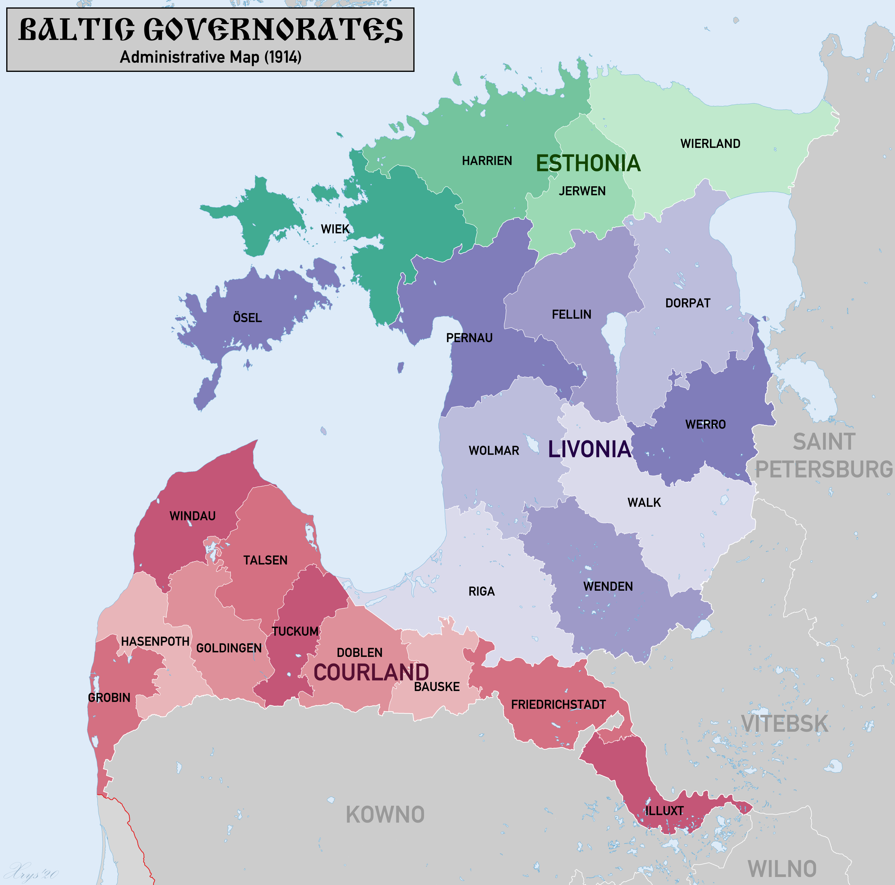 Map of the Baltic Governorates of the Russian Empire in 1914. Showing the Governorates and Districts of Esthonia, Livonia and Courland. Source Map Data: Специальная карта европейской России (1:420k), Ubersichtskarte von Mitteleuropa (1:300k), courtesy of